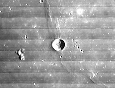 LOIV 139 H1 The small mountain on the west, mentioned by Elger, was once known in the IAU nomenclature as C. Herschel Zeta. The long ridge on which C. Herschel stands, also mentioned by Elger, is Dorsum Heim.